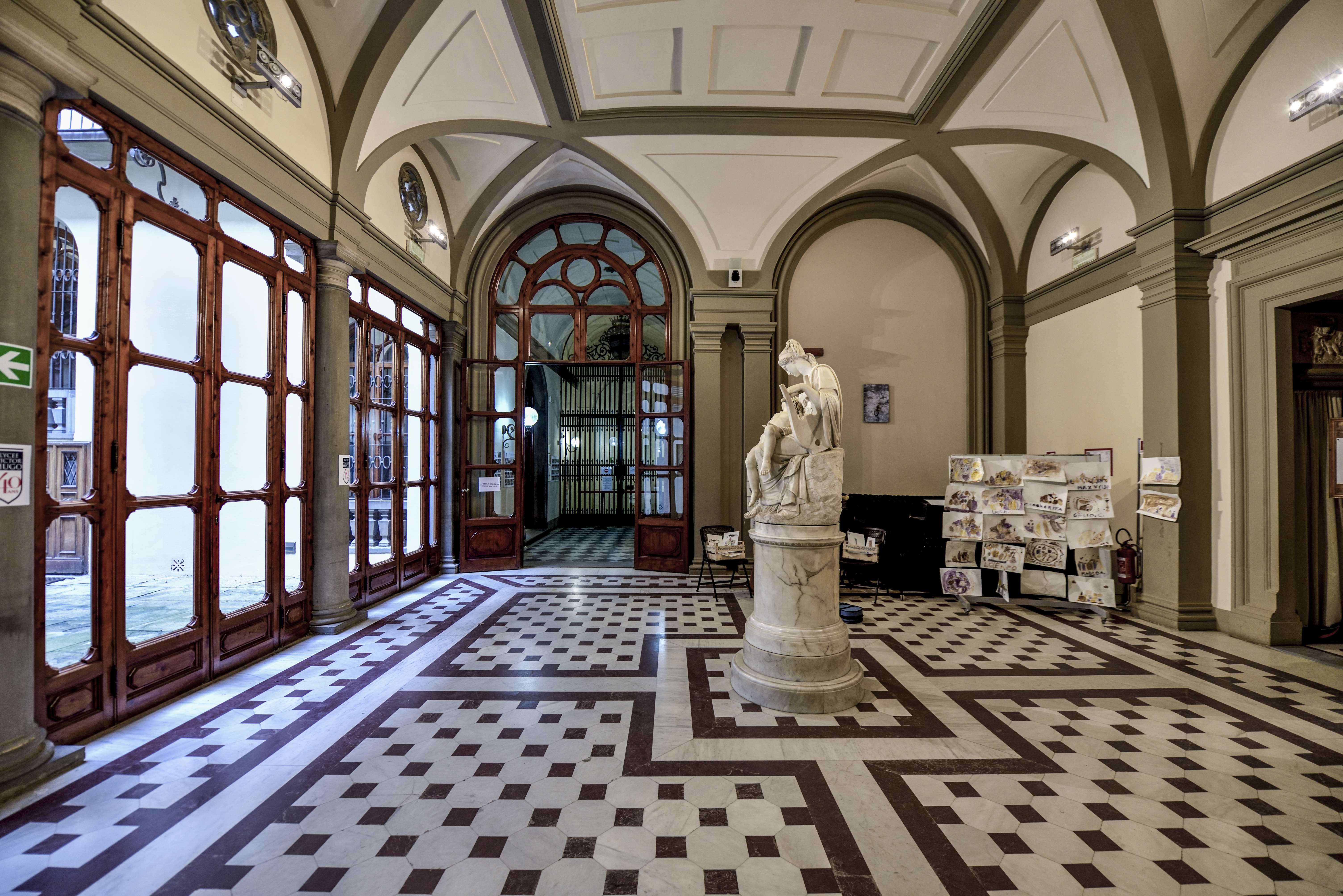 École française de Florence Mlf Lycée Victor Hugo - Palazzo Venturi Ginori - Florence